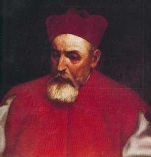 Péter Pázmány, Hungarian cardinal, philosopher, Archbishop of Esztergom, leader of the counter-Reformation in Hungary.